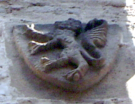 Escut del llinatge Fiveller al mur exterior de l'església de Sant Just de Barcelona (s. XIV-XV) / Coat of arms of the Fiveller family in the church of Sant Just, Barcelona (14th-15th c.)